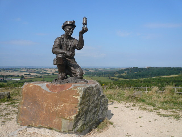 Silverhill Wood Country Park - Commemorative Statue The building just showing through the distant woodland to the right of the statue of the miner, is Hardwick Hall.